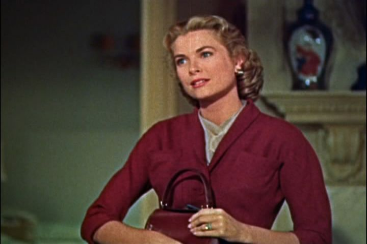 Screenshot of Grace Kelly from the trailer of the film Dial M for Murder